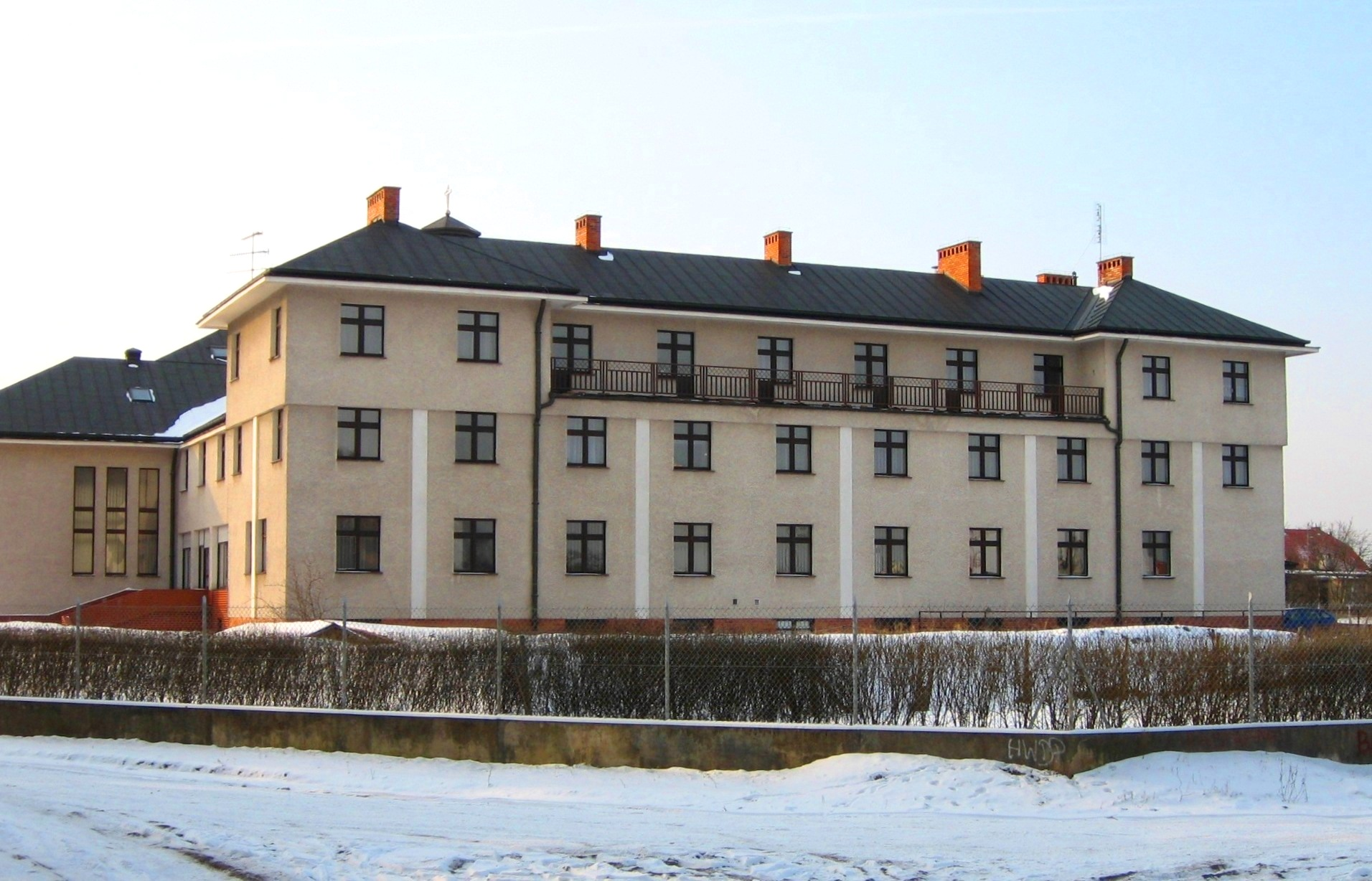 A house of Pallottine Sisters, Gniezno, Poland